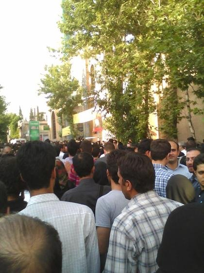 it is an extraordinary time. this is the most updated information.